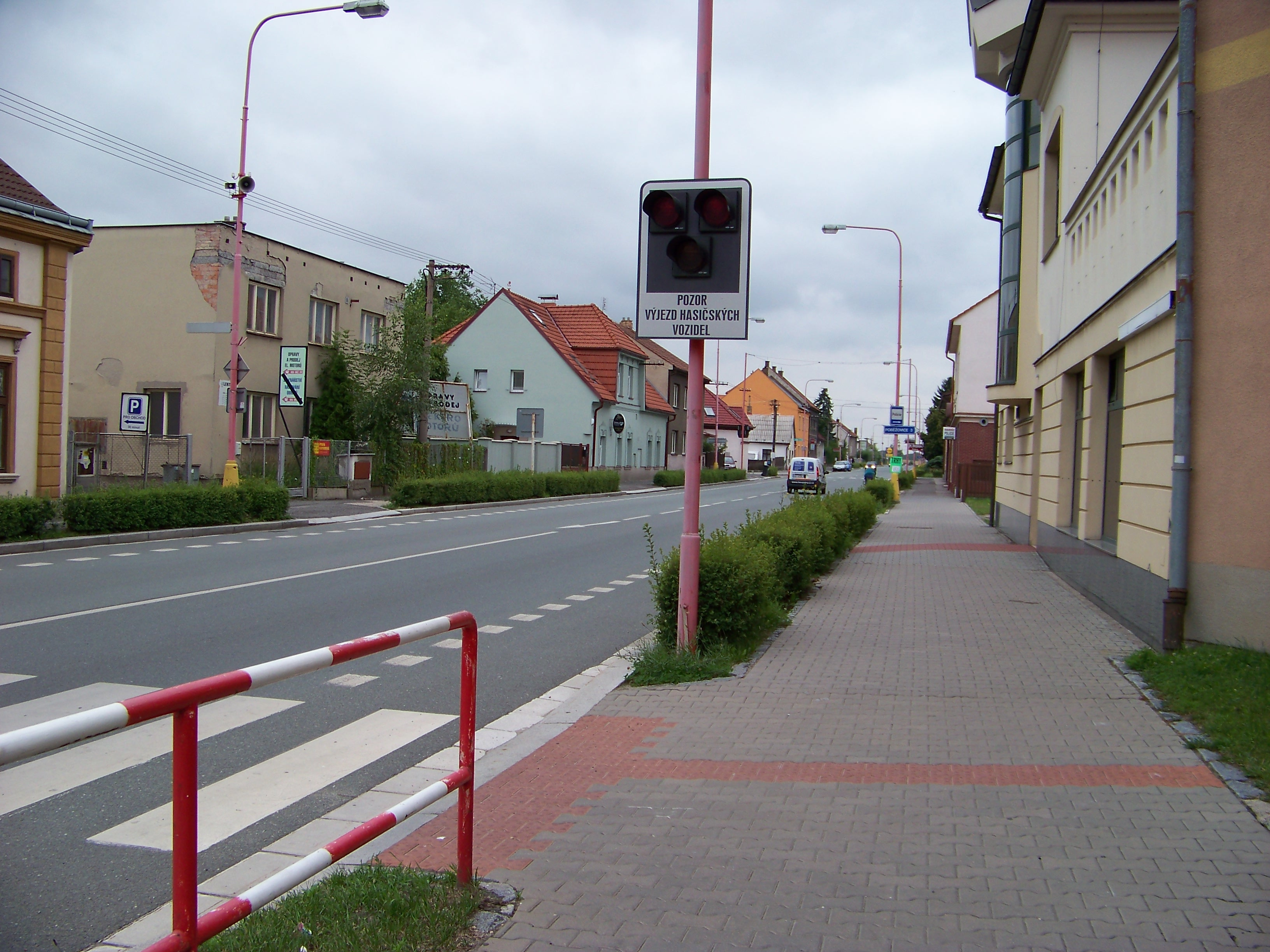 Holice, Pardubice District, Pardubice Region, the Czech Republic. Hradecká street, signals of fire engine exit.